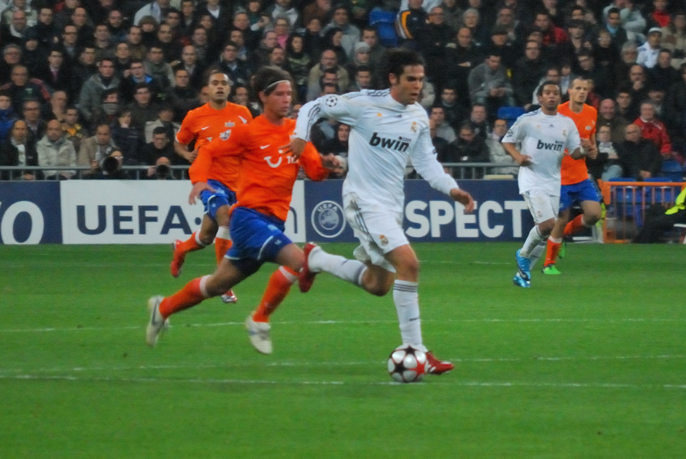 Kaká vs Zurich in 2009